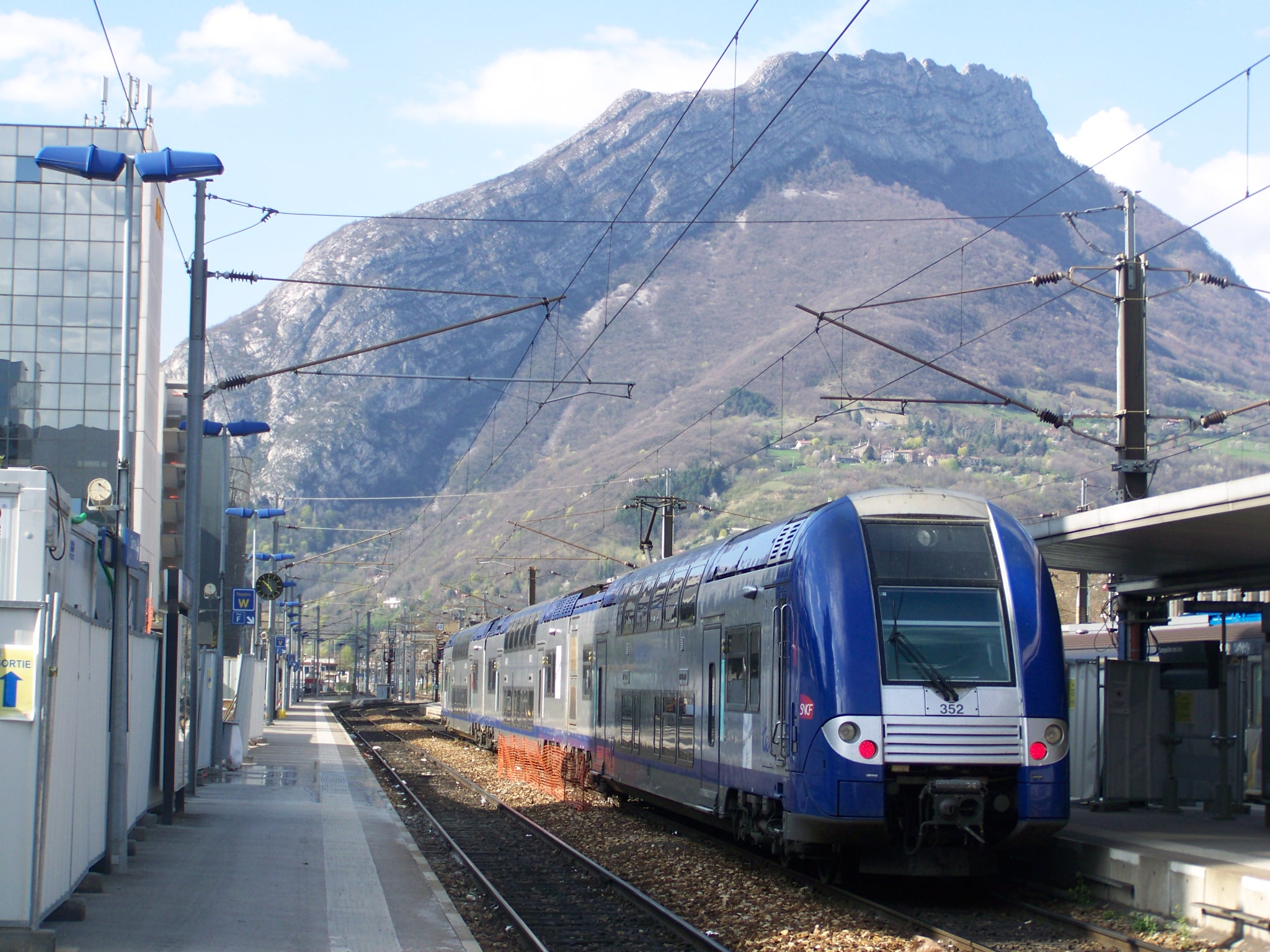 French regional train bound for Rives is about to leave Grenoble station, in Isère (Alps).